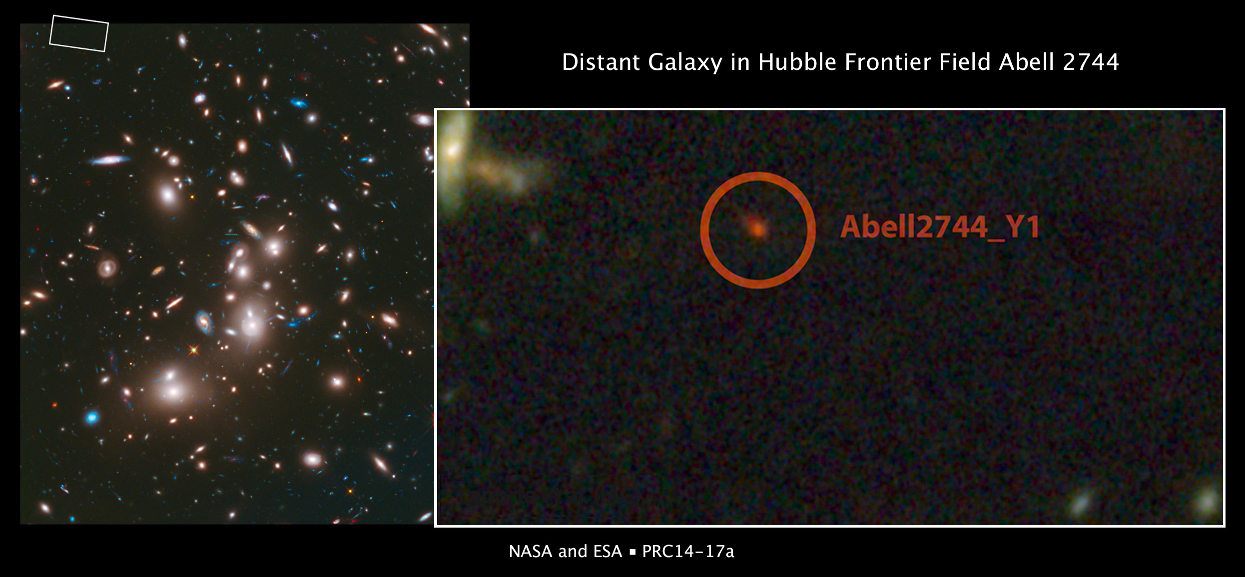 This is a NASA/ESA Hubble Space Telescope image of galaxy cluster Abell 2744. The inset image shows the region around galaxy Abell 2744_Y1, one of the most distant galaxies yet discovered in the Universe. The image shows the galaxy as it appeared 650 million years after the Big Bang. The galaxy lies far beyond the foreground Abell 2744 cluster, but its image has been magnified and brightened by a phenomenon in the cluster known as gravitational lensing. This image was taken as part of the Frontiers Fields observing program.